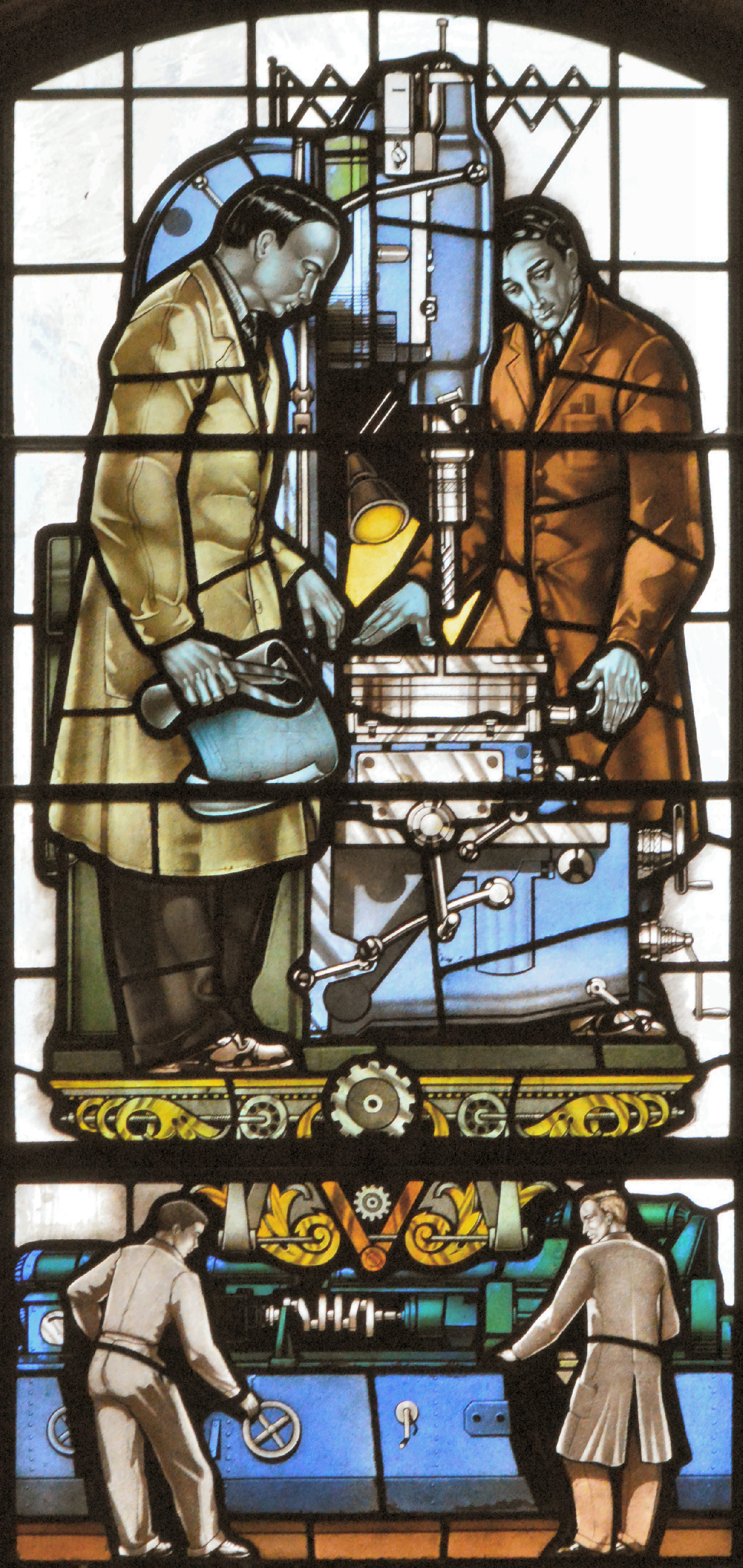 Southwark, Christ Church, Window south side 10. Top: a supervisor, representing engineering. Bottom: two men manufacturing a crankshaft on a lathe. By Frederick W. Cole (1908-1998)